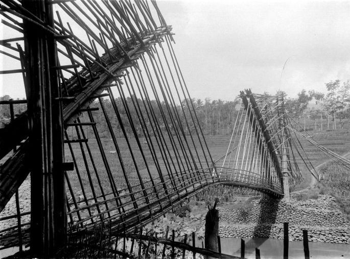 Bamboo bridge across the Kali Serayu near Wonosobo, Central Java